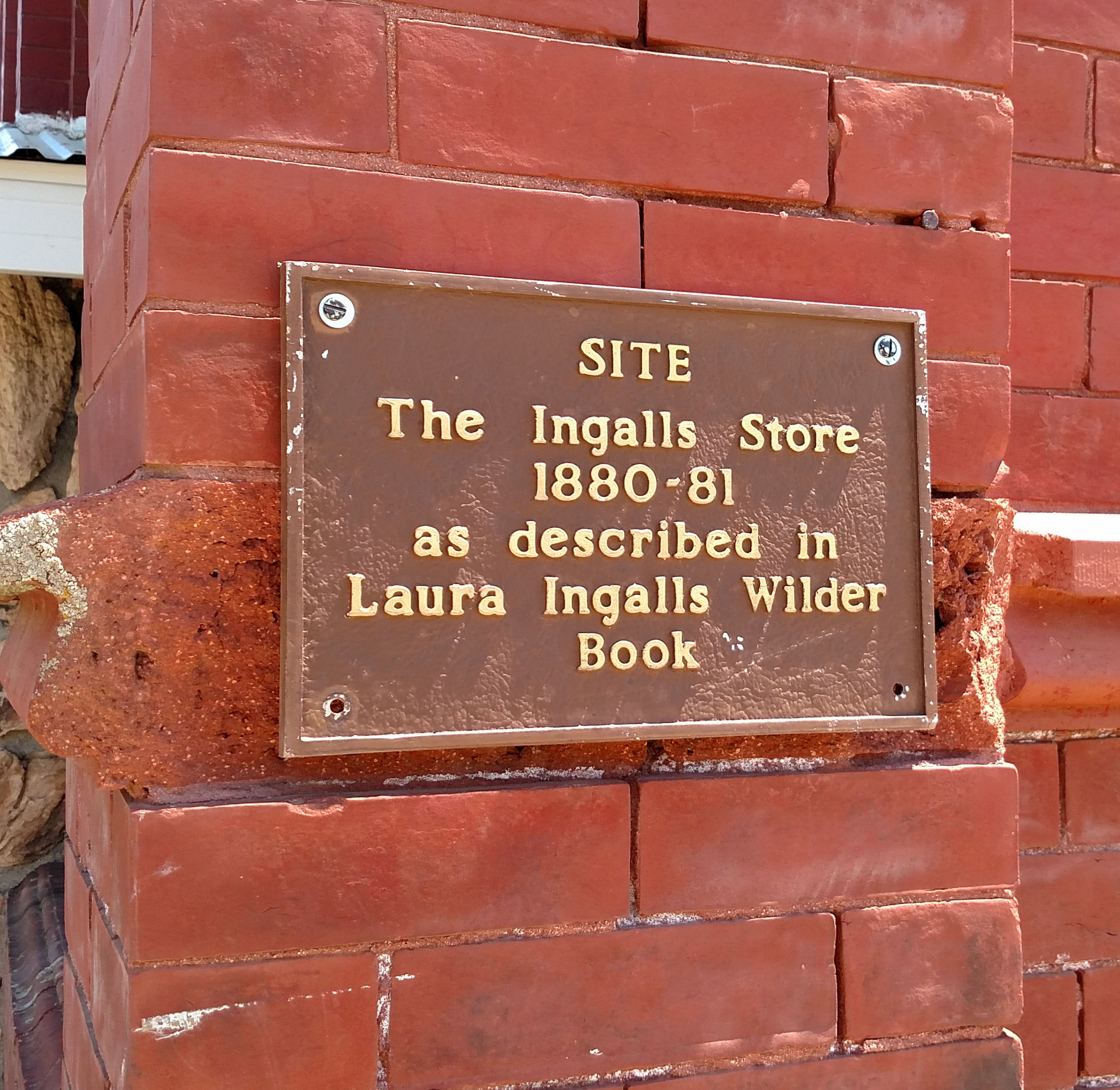 Former site of Charles Ingalls' store, owned by Ingalls from 1880-1881. While the store building no longer exists, the location is noted in De Smet's downtown area with this marker on what's currently on the site, a former bank building that now houses Gass Law Firm.